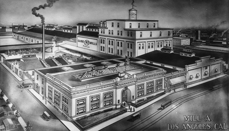 Drawing of the Globe Grain & Milling Co. headquarters and warehouse, located at 907 E. 3rd Street, at S. Garey Street (left), in Los Angeles. Signs on the warehouse and distribution center promote Globe "A1" Mills Flour. This realistic drawing includes a streetcar traveling west on 3rd Street.